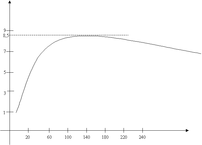 Energia de ligação